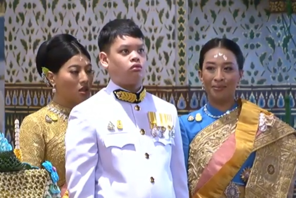 Prince Dipangkorn, May 5, 2019